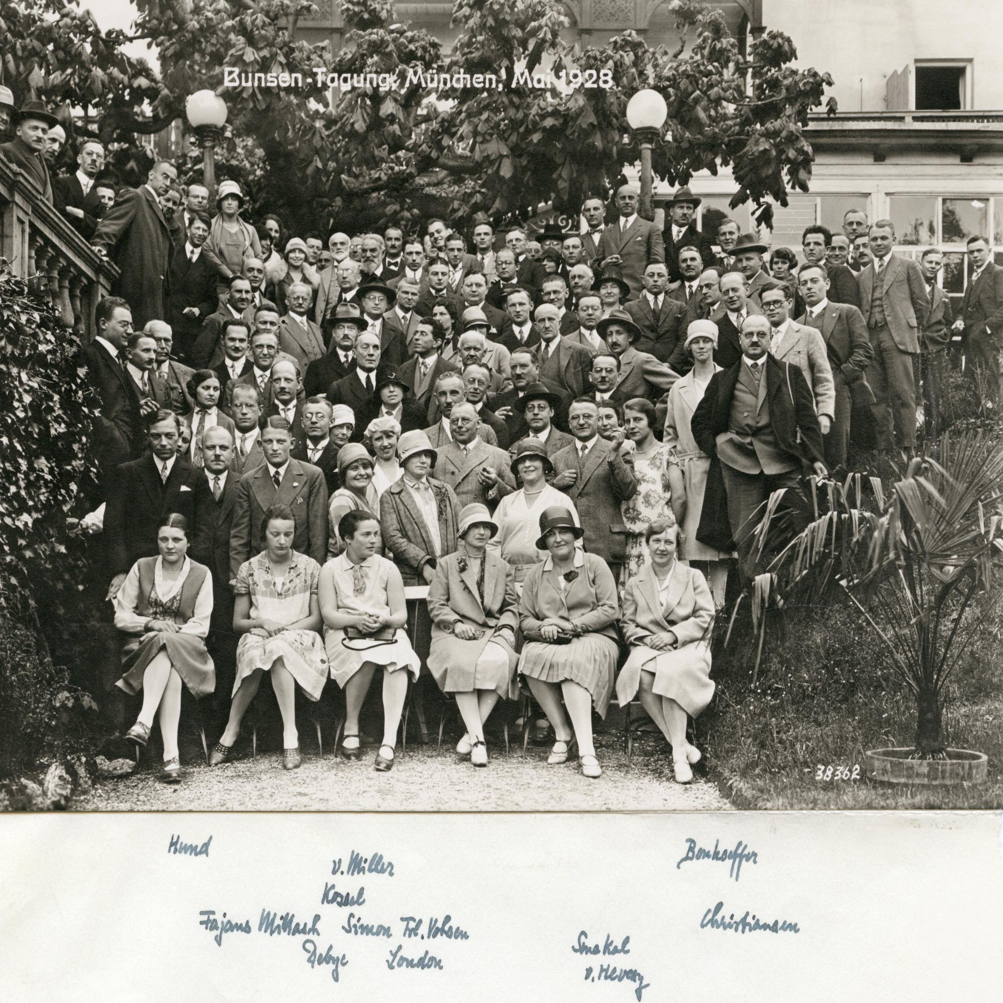 Bunsen-Congress, May 1928 at Munich (original annotations by Friedrich Hund).